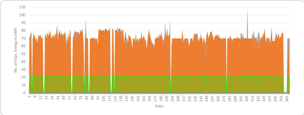 ADITYA daily energy consumption